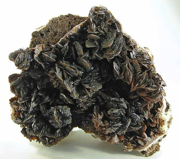 Descloizite Locality: Berg Aukas (Berg Aukus), Grootfontein District, Otjozondjupa Region, Namibia (Locality at ) Size: 9.5 x 8.9 x 4.9 cm. This is not modern material but 25-40 years old now! This is a very large, very rich specimen with fabulous blooms of dark chocolate crystals (they appear lighter in the photos but are actually a prettier, richer brown hue) that rise as much as 2.5 cm above the matrix. Descloizite as a rule can be a pretty ugly mineral, but in the case of super specimens such as this, it is actually very striking - and again, these Berg Aukus specimens set the standard for the species.